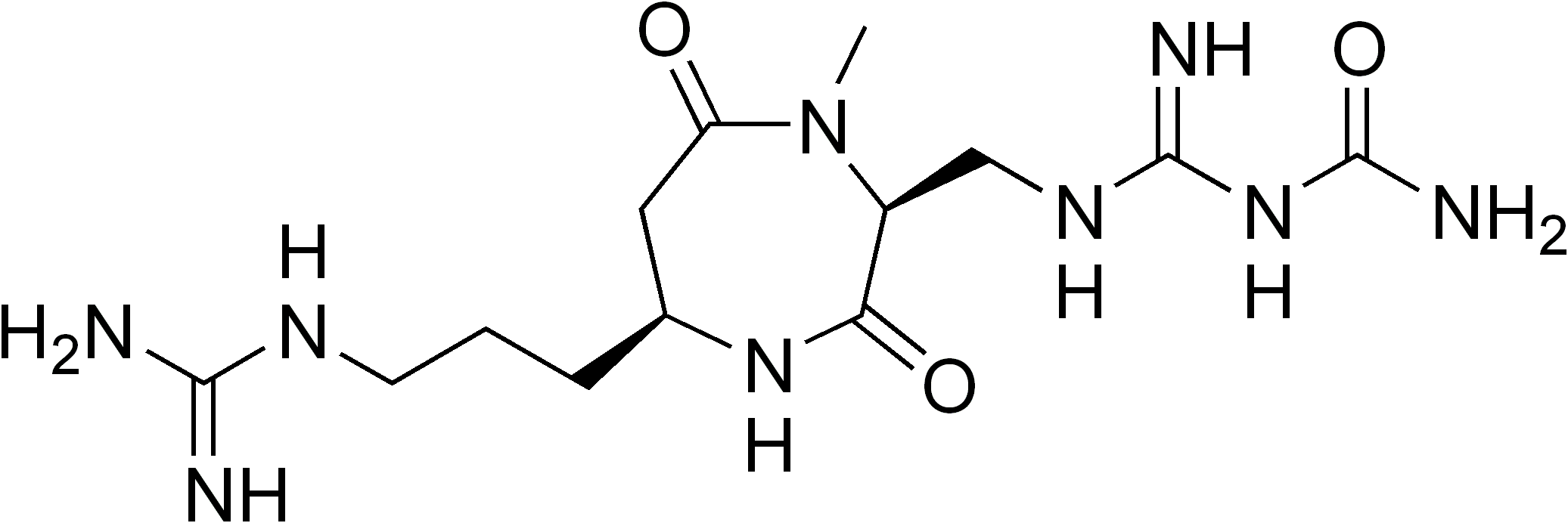 chemical structure of TAN-1057 D